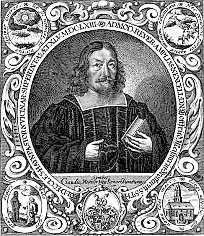 Gottfried Meisner (1618-1690) Protestant theologians from Germany